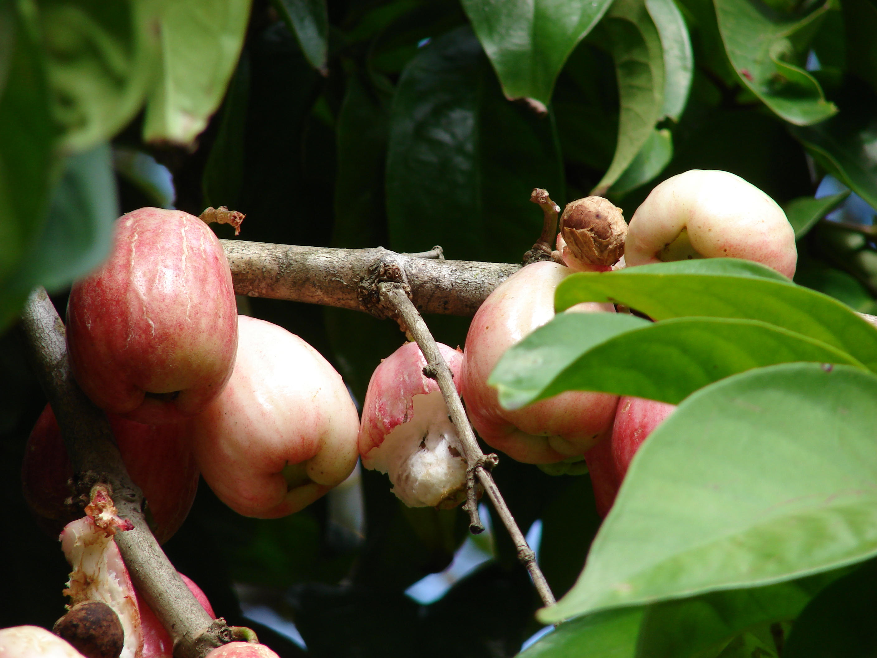 Syzygium malaccense (fruit). Location: Maui, Hana Hwy